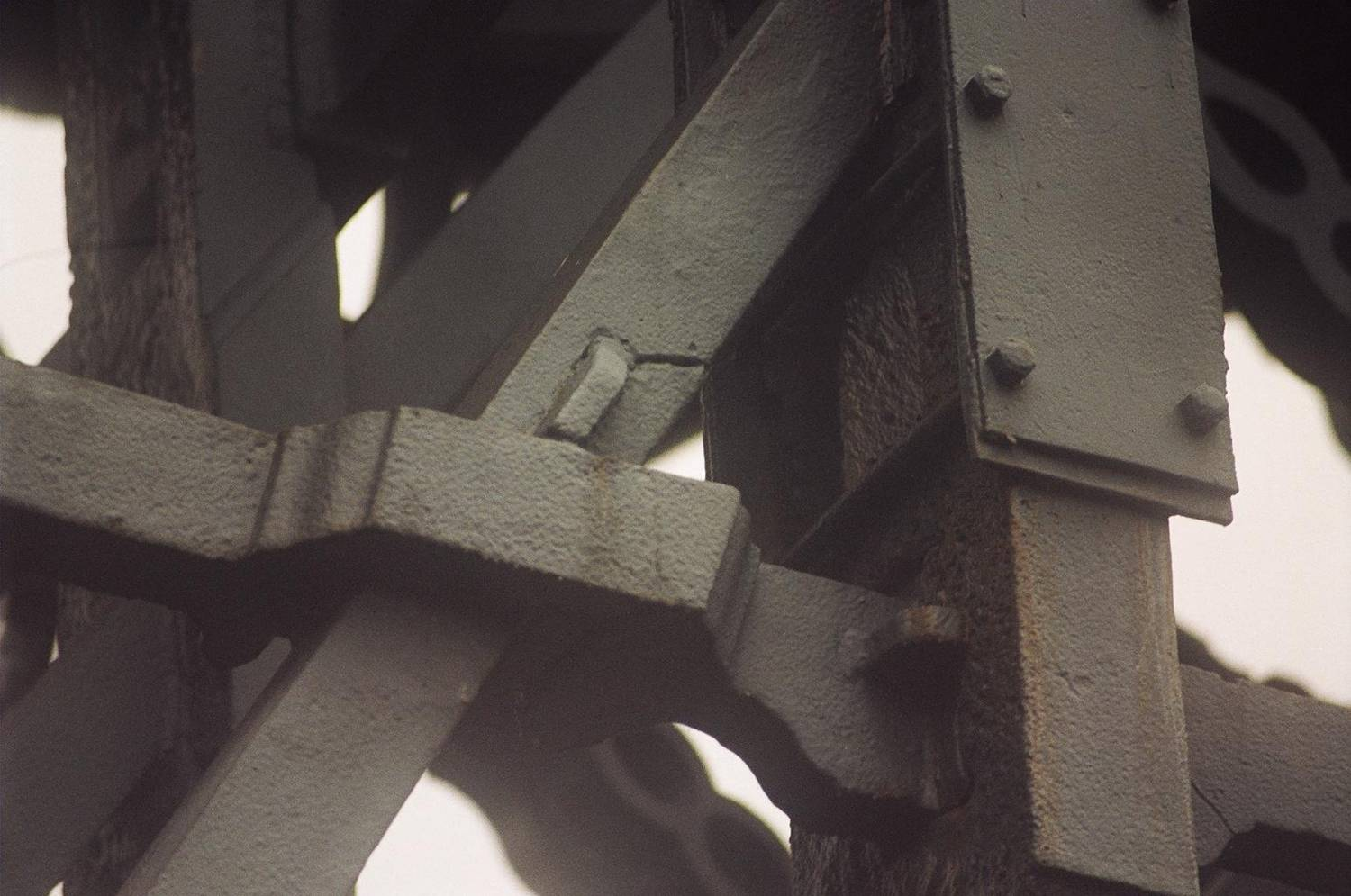 own photo taken in 2003